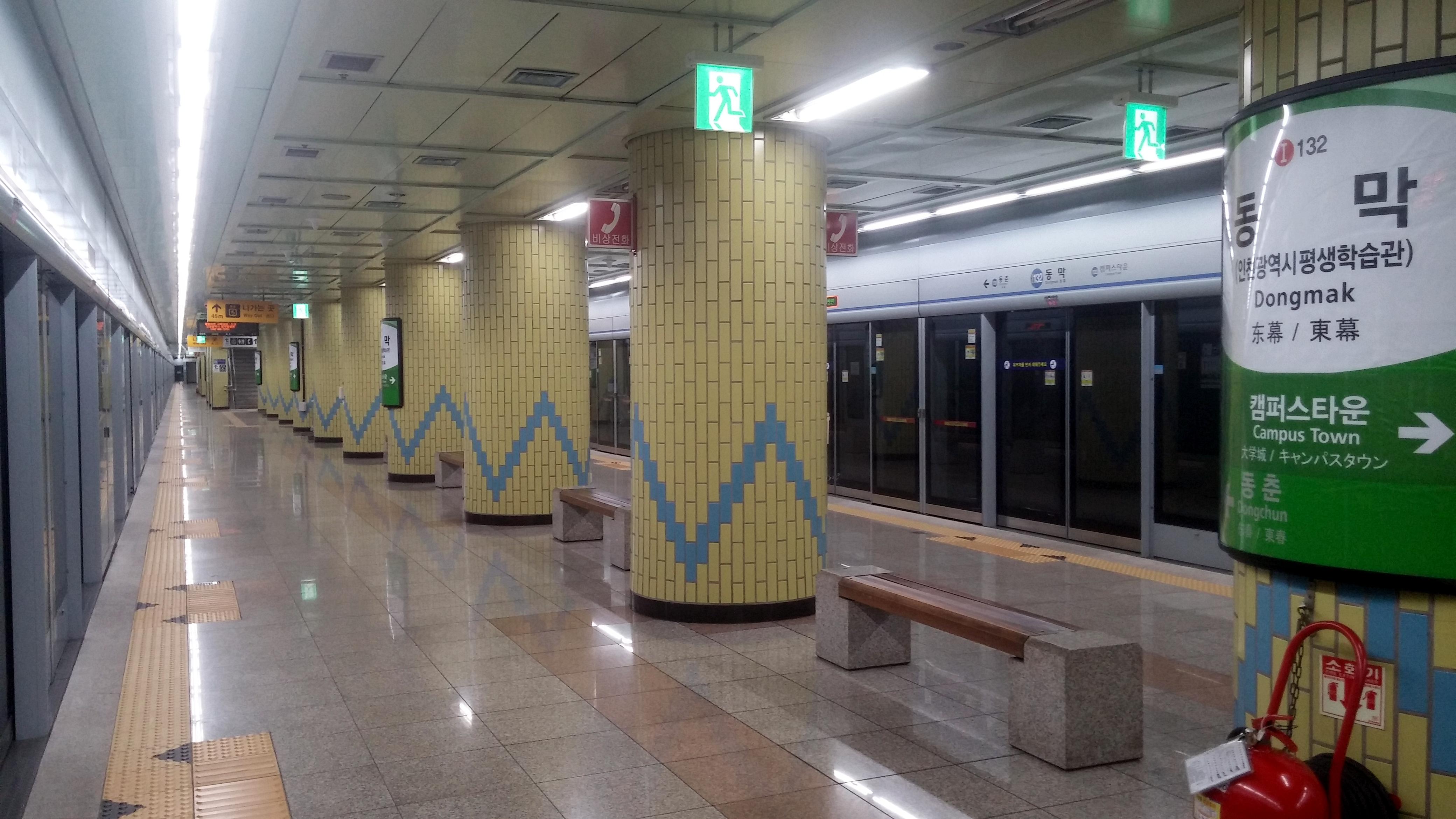 A platform of Dongmak Station.